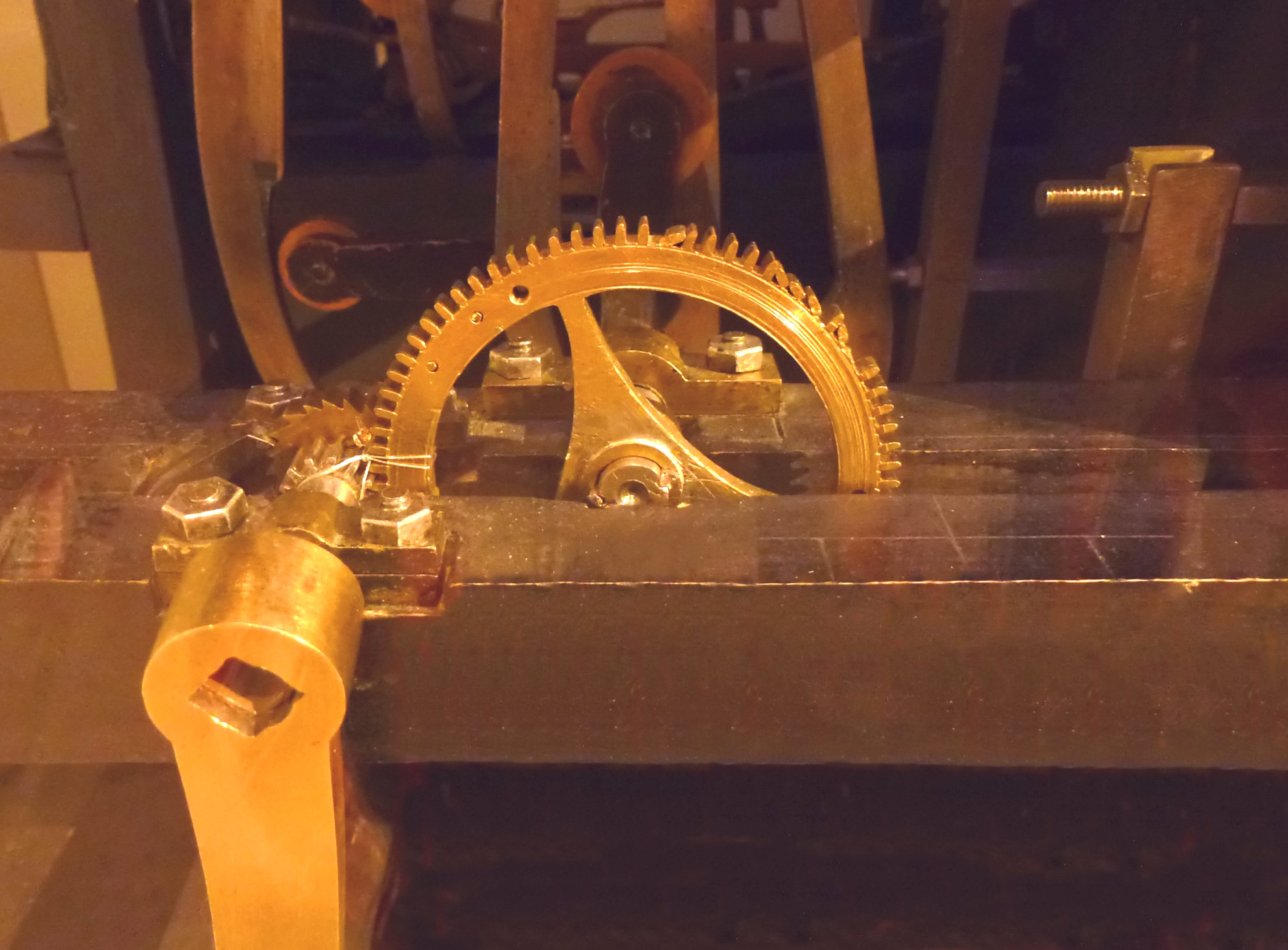 Scheutz Difference engine, detail